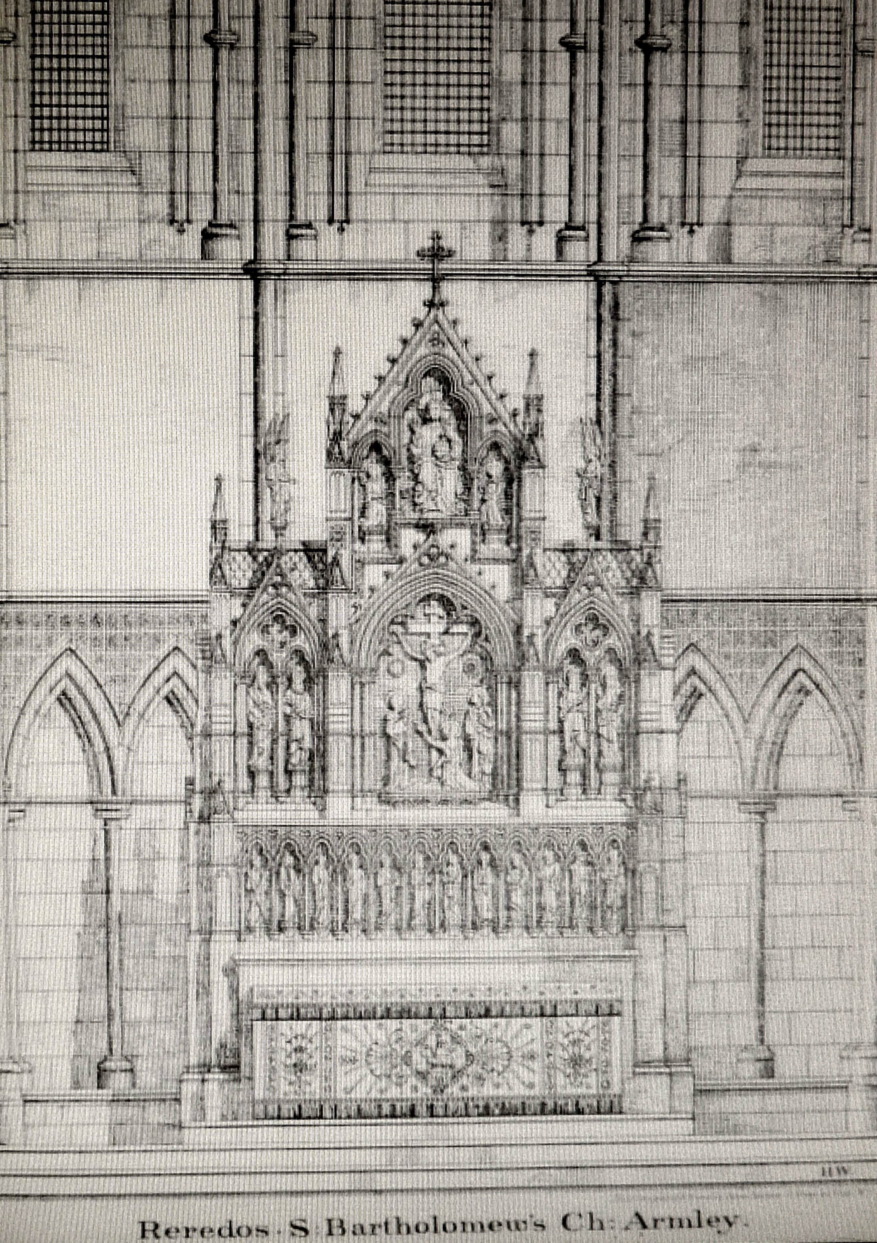 1874 lithograph of a design for the 1877 reredos at St Bartholomew's Church, Armley, Leeds, West Yorkshire, England. This was not in the previous St Bartholomews which was demolished and replaced by the current St Bartholomews in 1872-1877